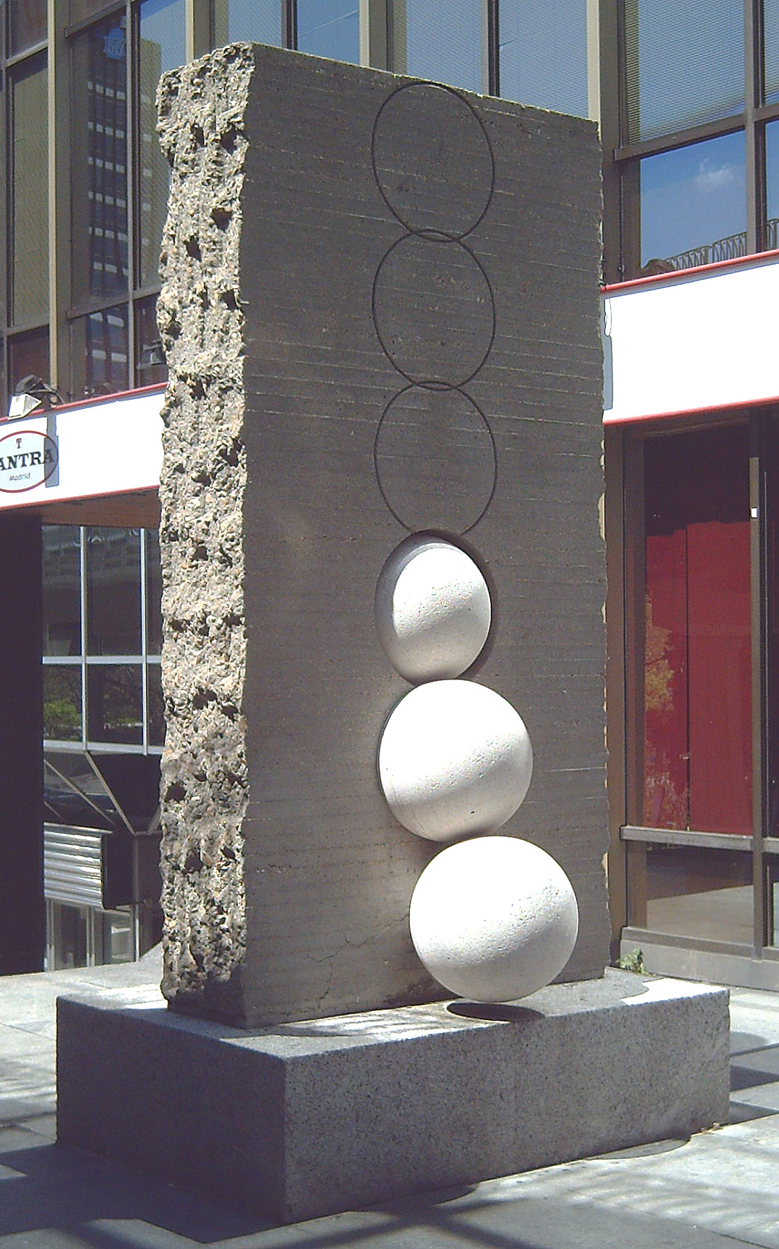 At the other side of the wall (1972). Sculpture by Josep Maria Subirachs (b. 1927). Concrete and limestone. 284 x 147 x 155 cm. At the Open-Air Sculpture Museum, 41st Paseo de la Castellana (avenue) in Madrid (Spain).